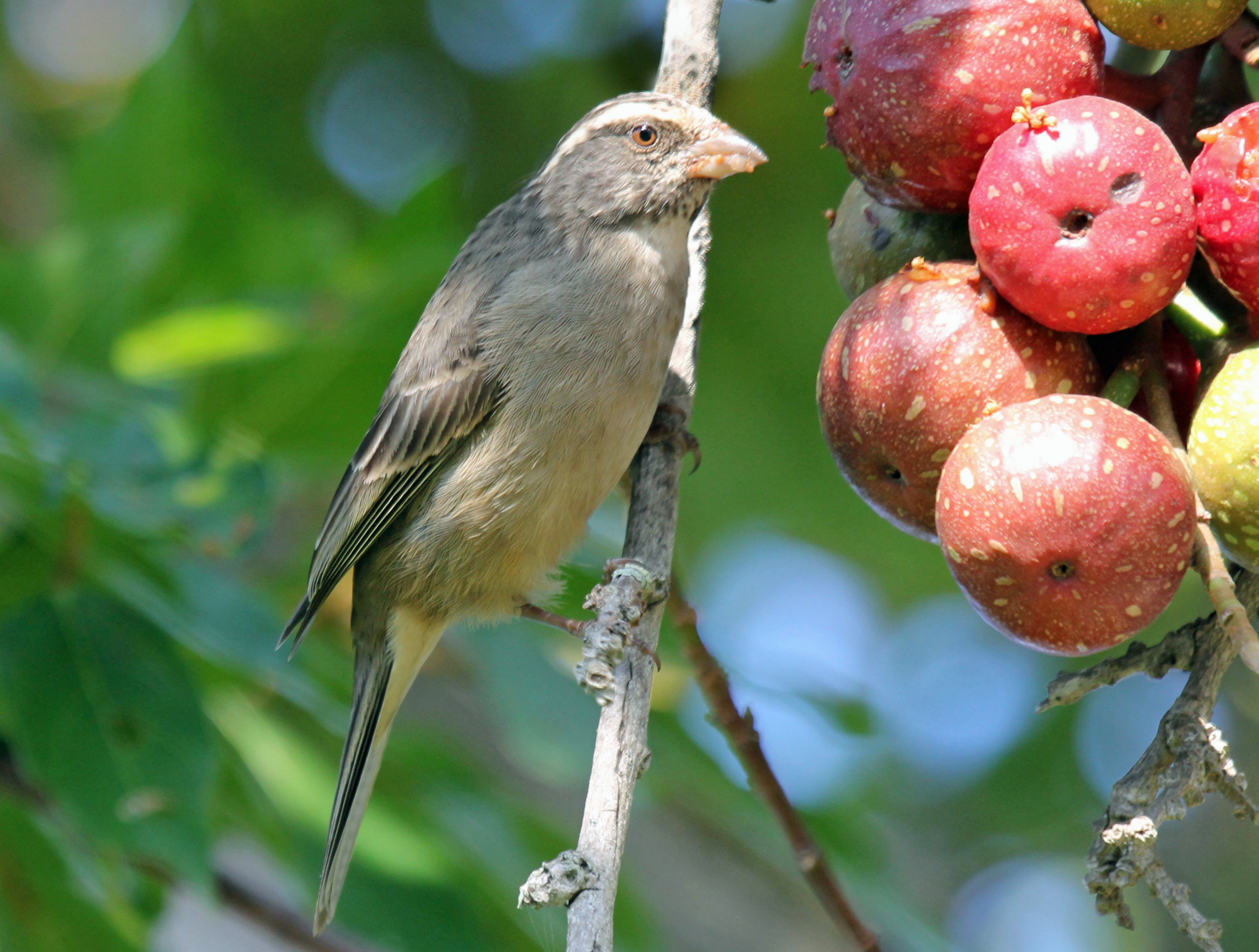 Streaky-headed Seedeater feeding on fruit of a Cape fig, at Plettenberg Bay, South Africa. This race occurs in southern South Africa. It has limited white on the throat and vent feathers, and a comparatively dark tone on the face, ear and chest.